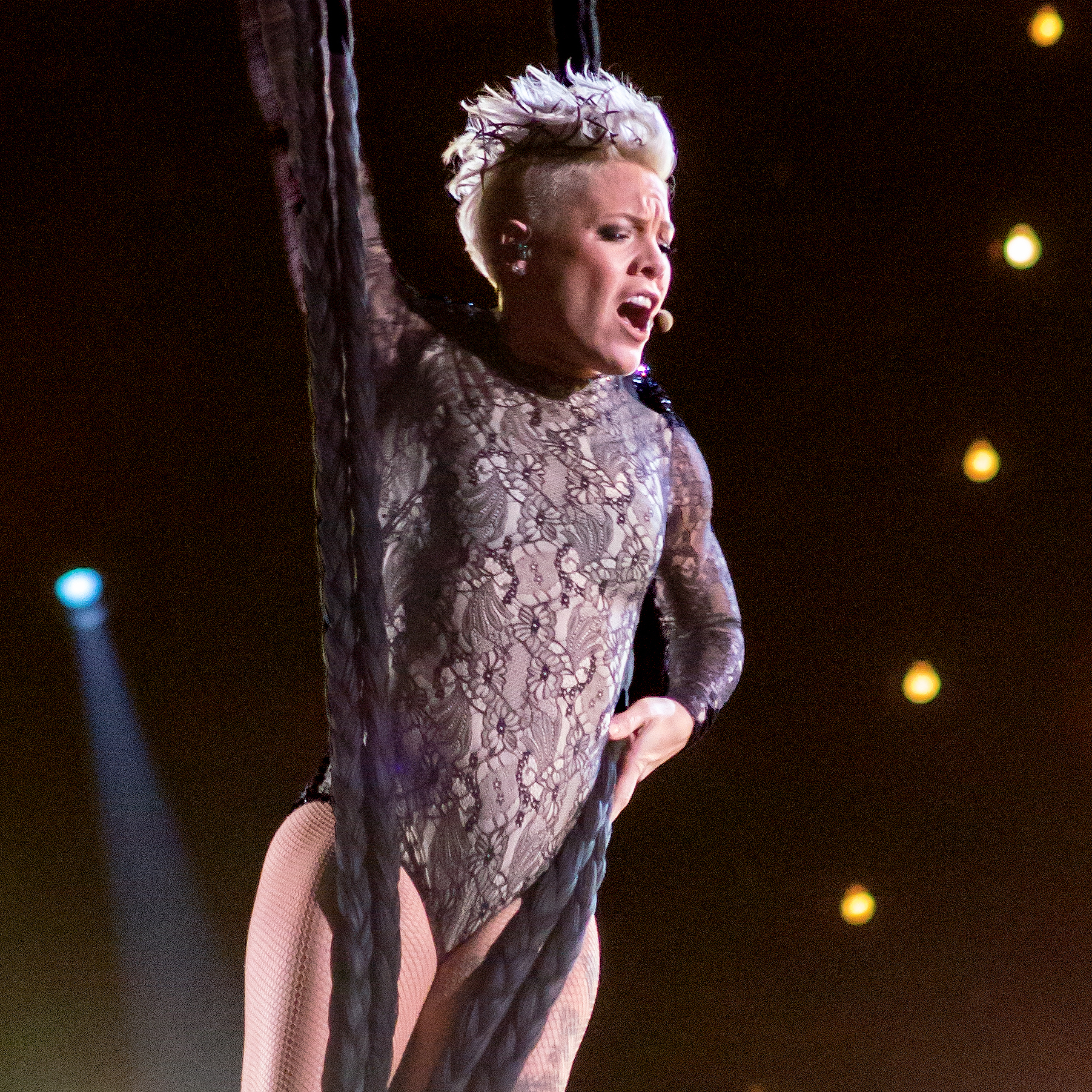 Pink Grammys 2014